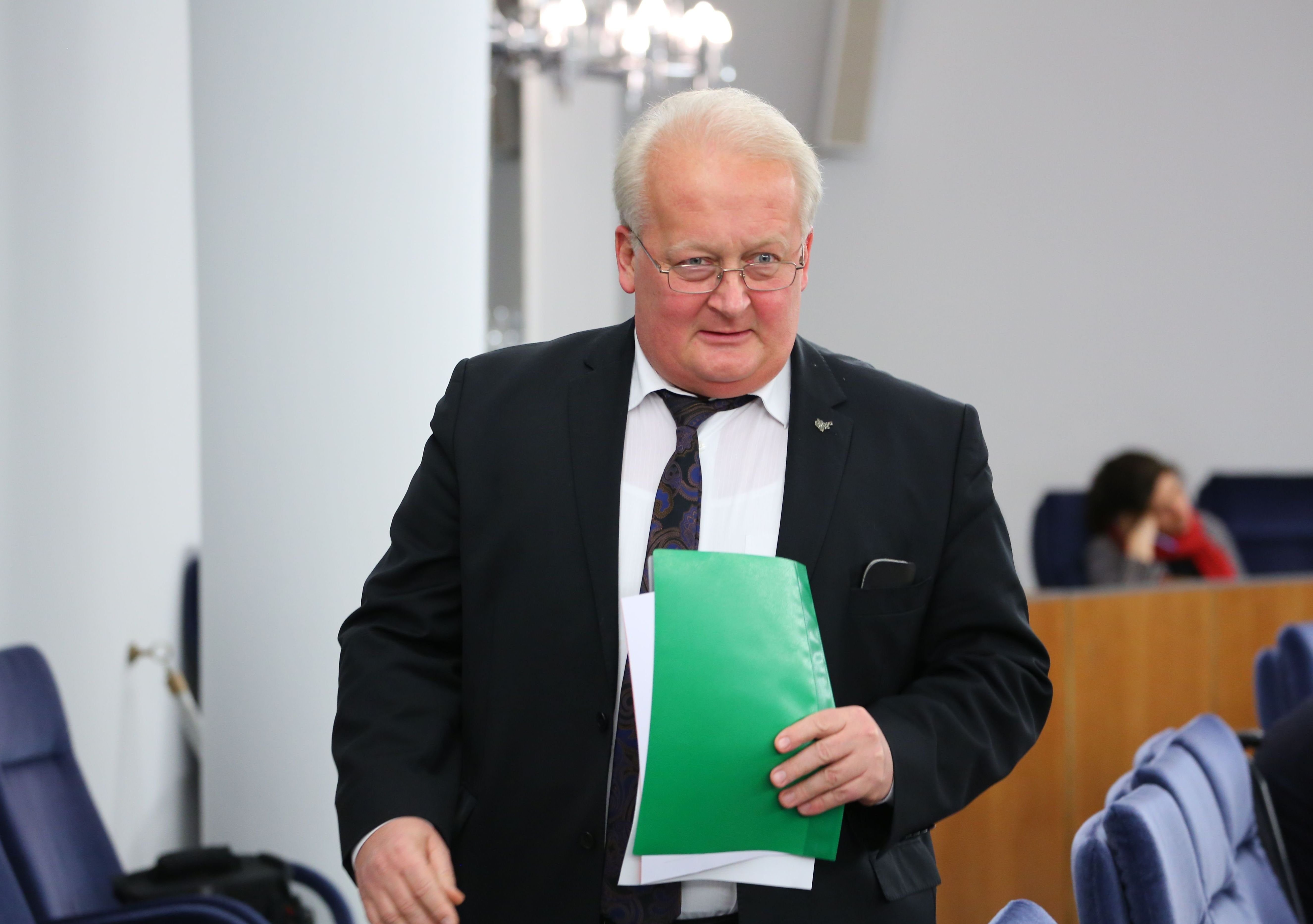 Senator Leszek Piechota during 71st sitting of the Polish Senate